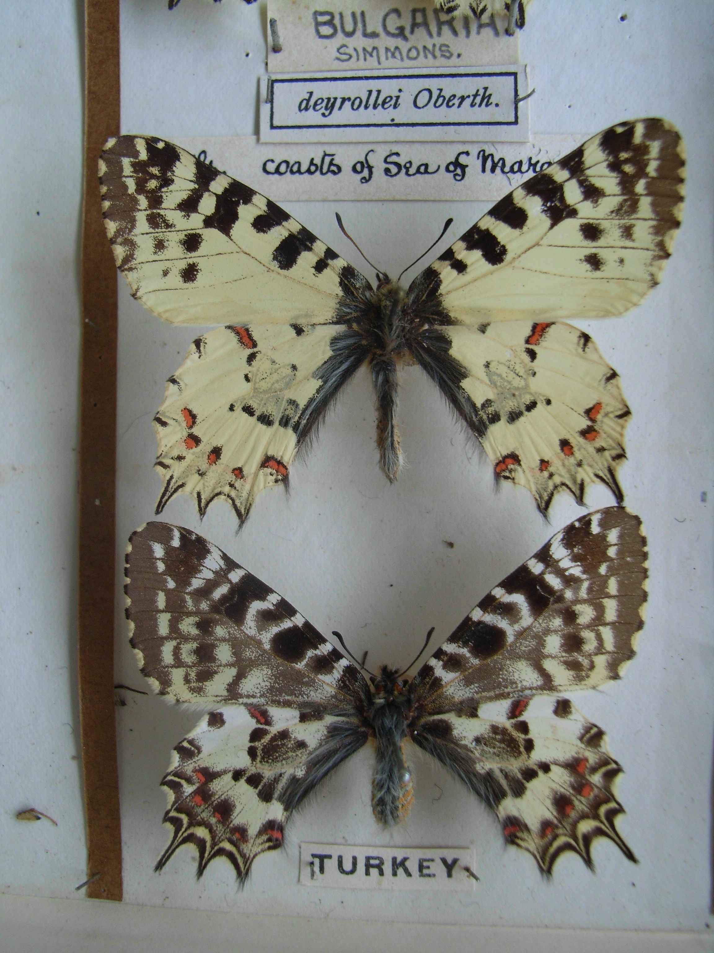 Allancastria deyrollei